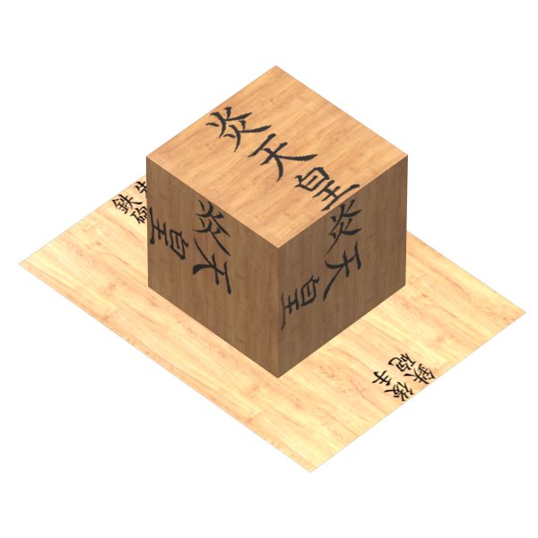 This is a saishō shōgi piece and board three-dimensional representation.